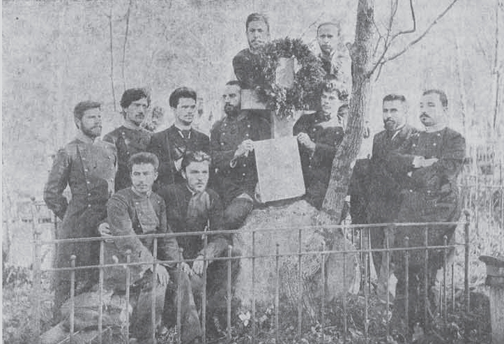 Bulgarian_students_on_Rayko_Zhinzifov_grave_in_Moscow